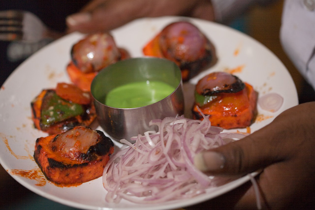 Plate with paneer tikka, chutney and raw onion on a plate. Chennai, Tamil Nadu, India.